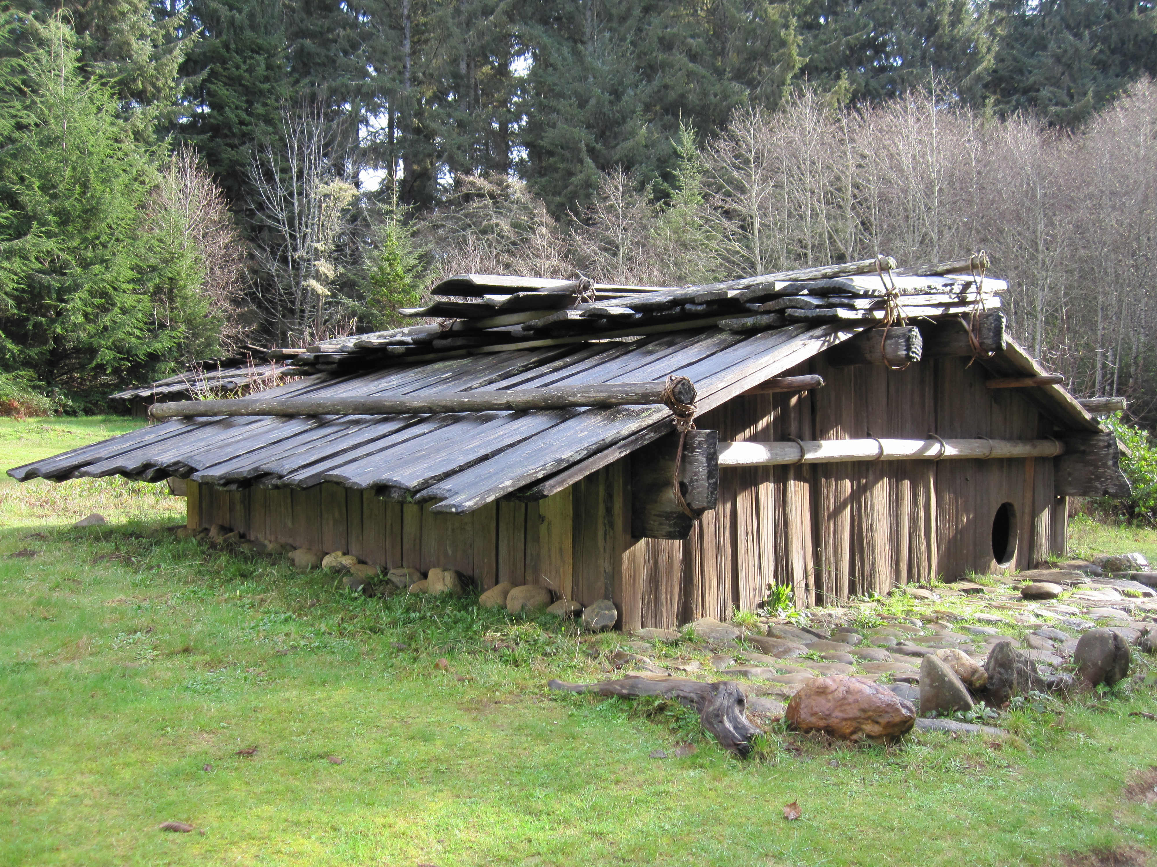 Traditional Yurok Indian family house at the Sumêg Village, located inside Patrick's Point State Park, northern California.